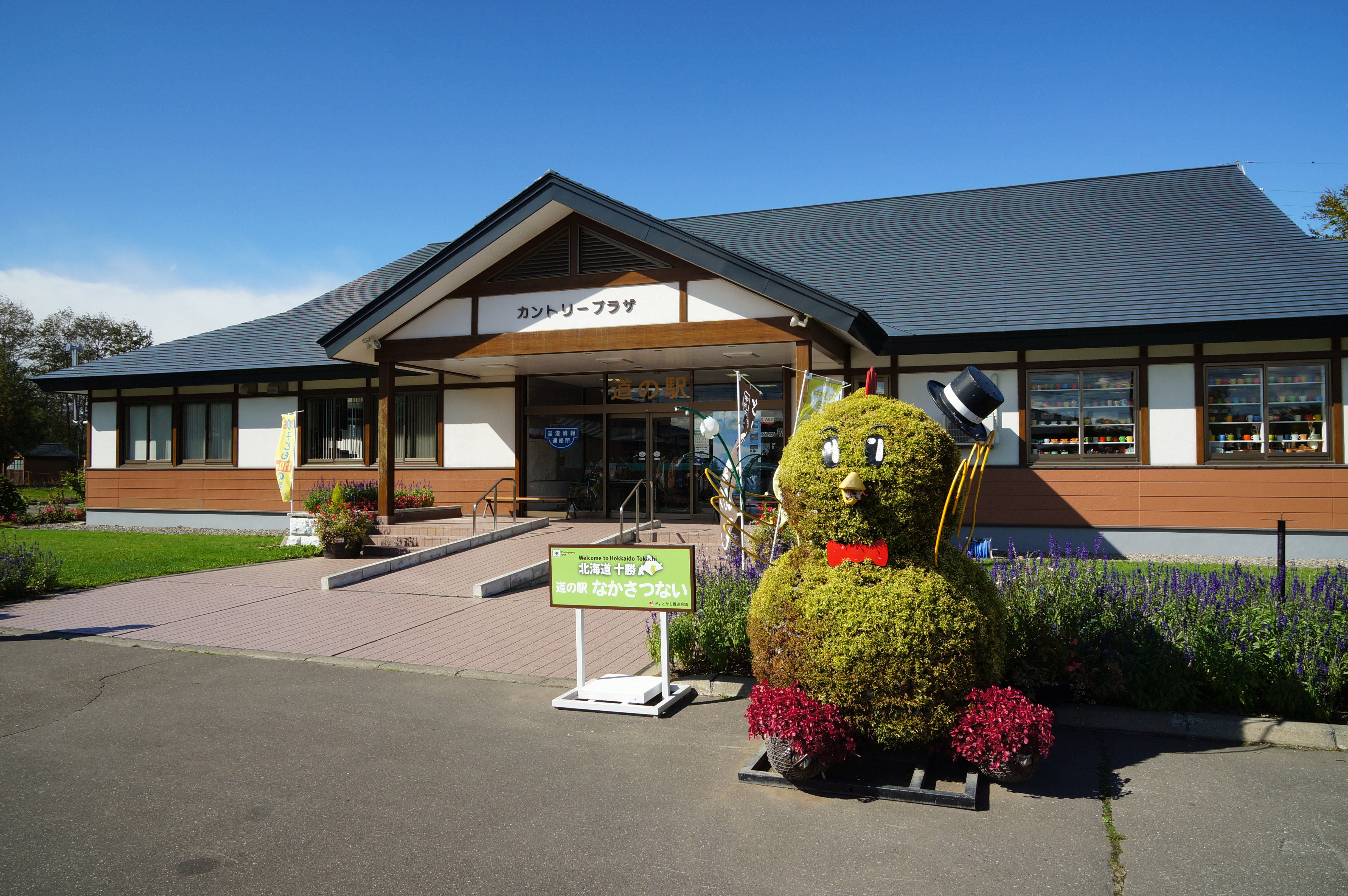 Michinoeki Nakasatsunai in Nakasatsunai, Hokkaido prefecture, Japan.